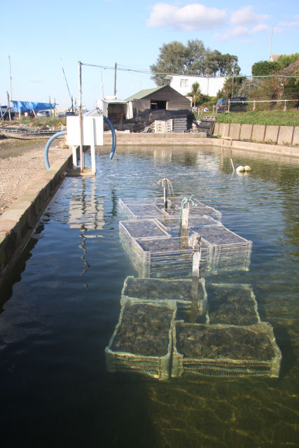 Oyster bed, West Mersea Various sizes of oysters are being cultivated in this tank. 'Colchester' oysters are famous for their quality.